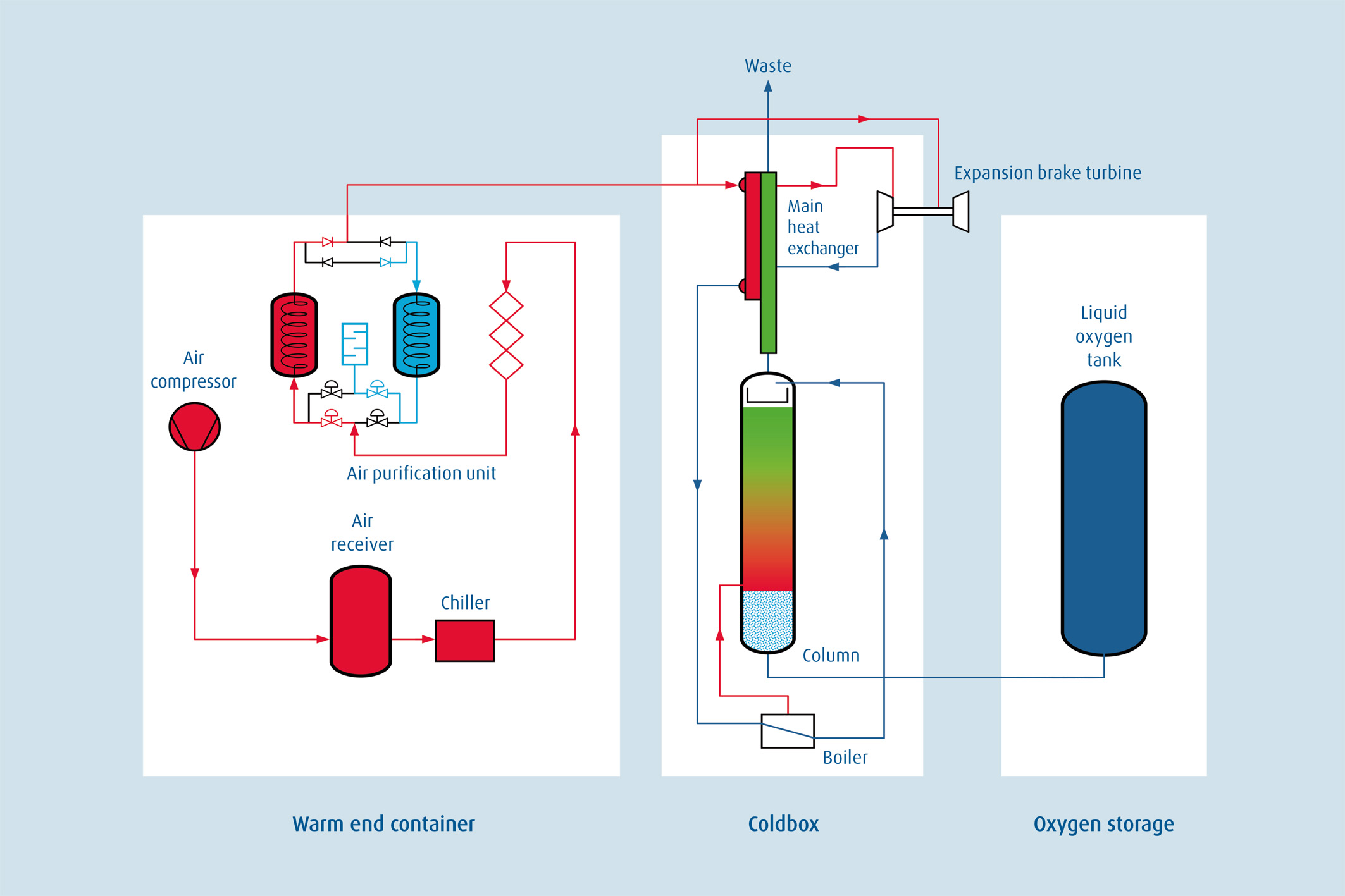 Basic scheme of a LOX plant by Linde CryoPlants Ltd.